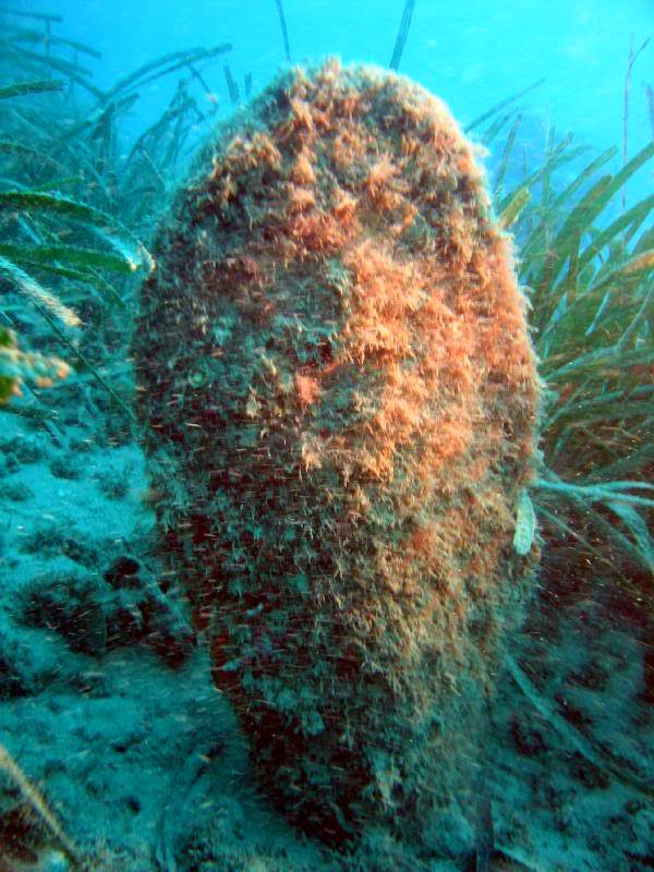 Live specimen of Pinna nobilis, in Levanto, Liguria